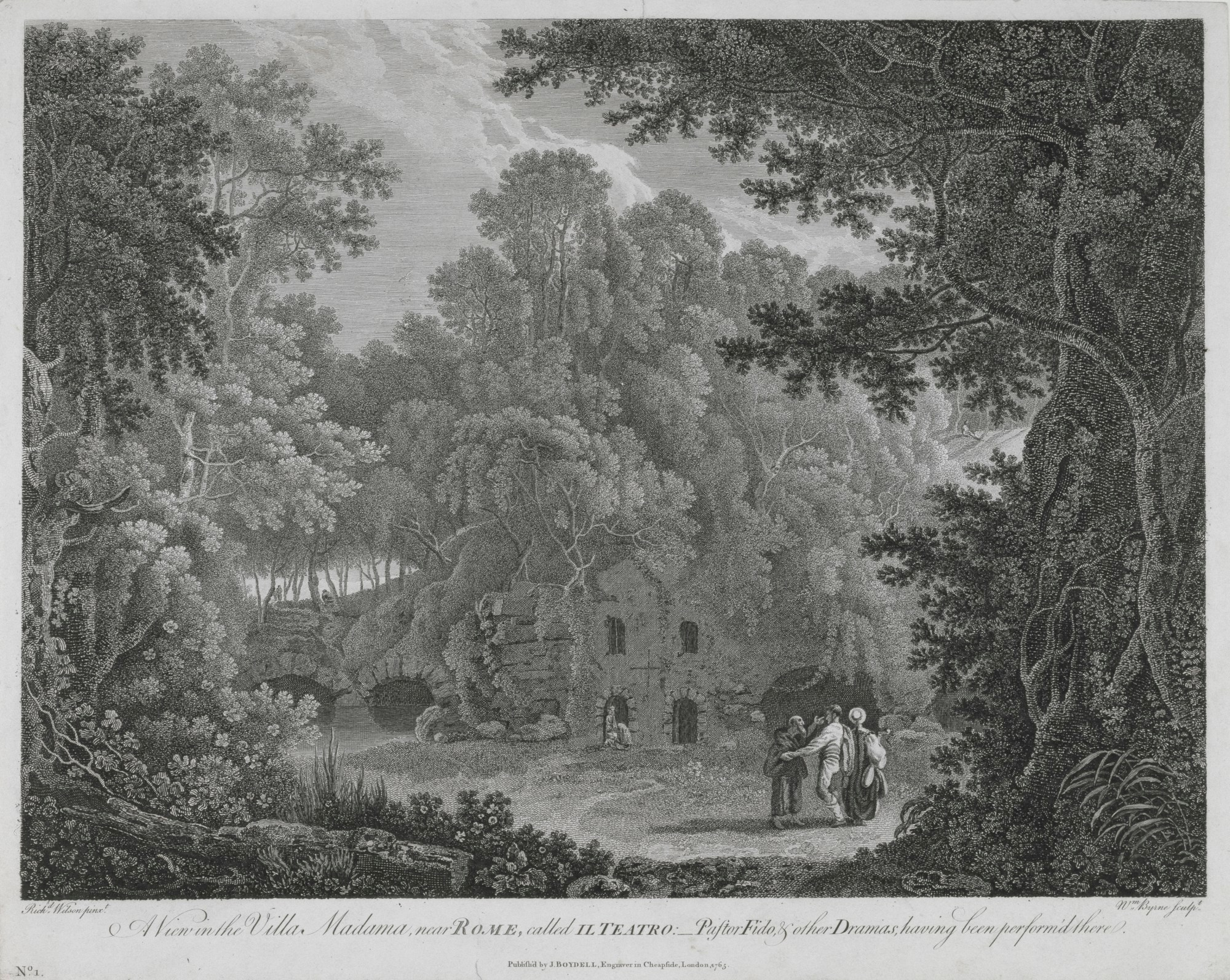 Etching and engraving (300 x 405 mm) by William Byrne after a painting by Richard Wilson, published by John Boydell. Royal Academy of Arts, London. William Byrne got the Society of Artists medal for this print, in 1765.